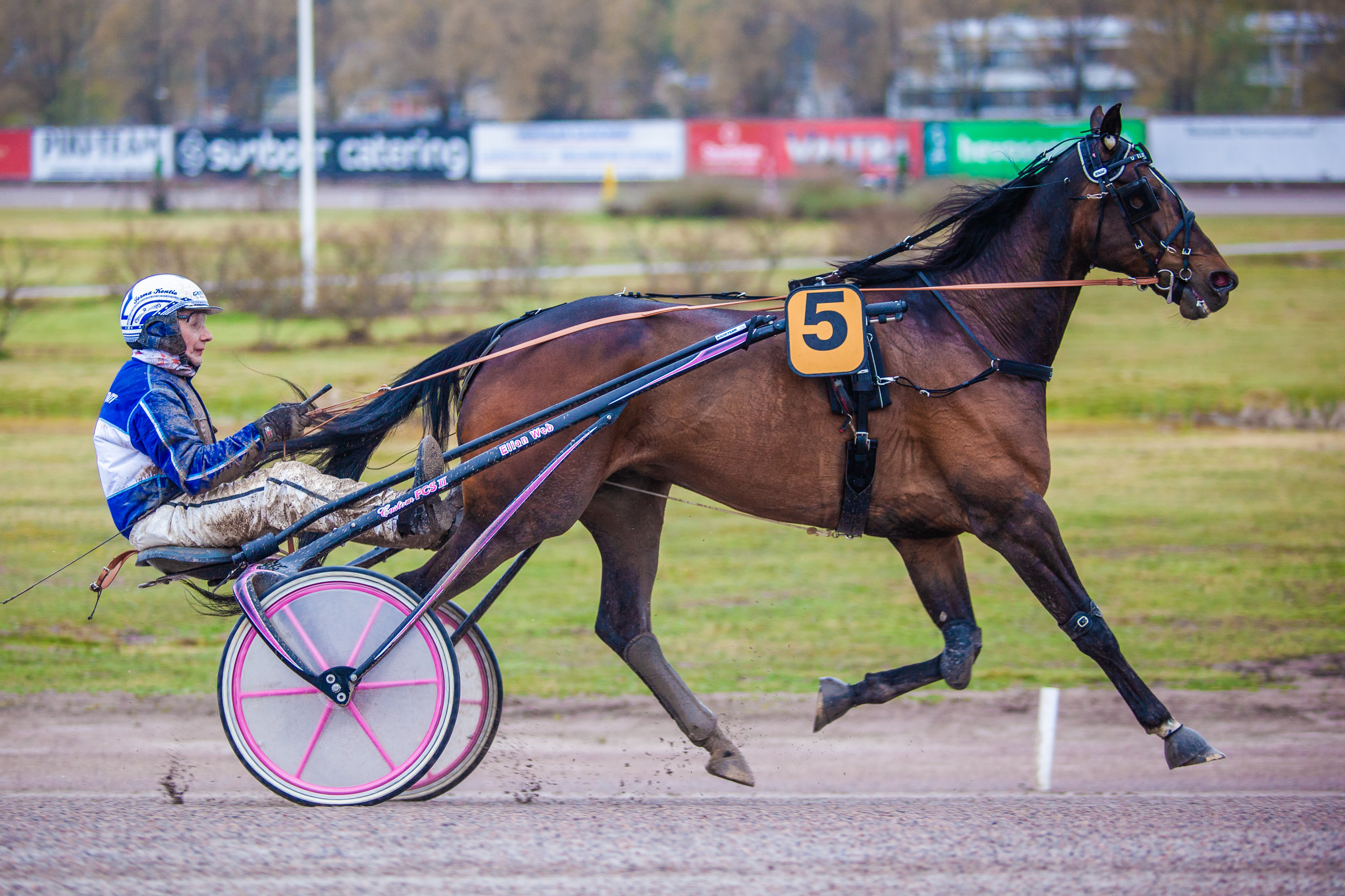 Elian Web and Jorma Kontio at Vermo 4.5.2019